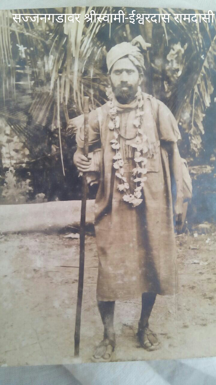 Paramhansa Parivrajakacharya Shri Pradnyanananda Saraswati Swami at Sajjangad,Satara,Maharashtra recognized at that time by the name_Eshwardasa Ramdasi